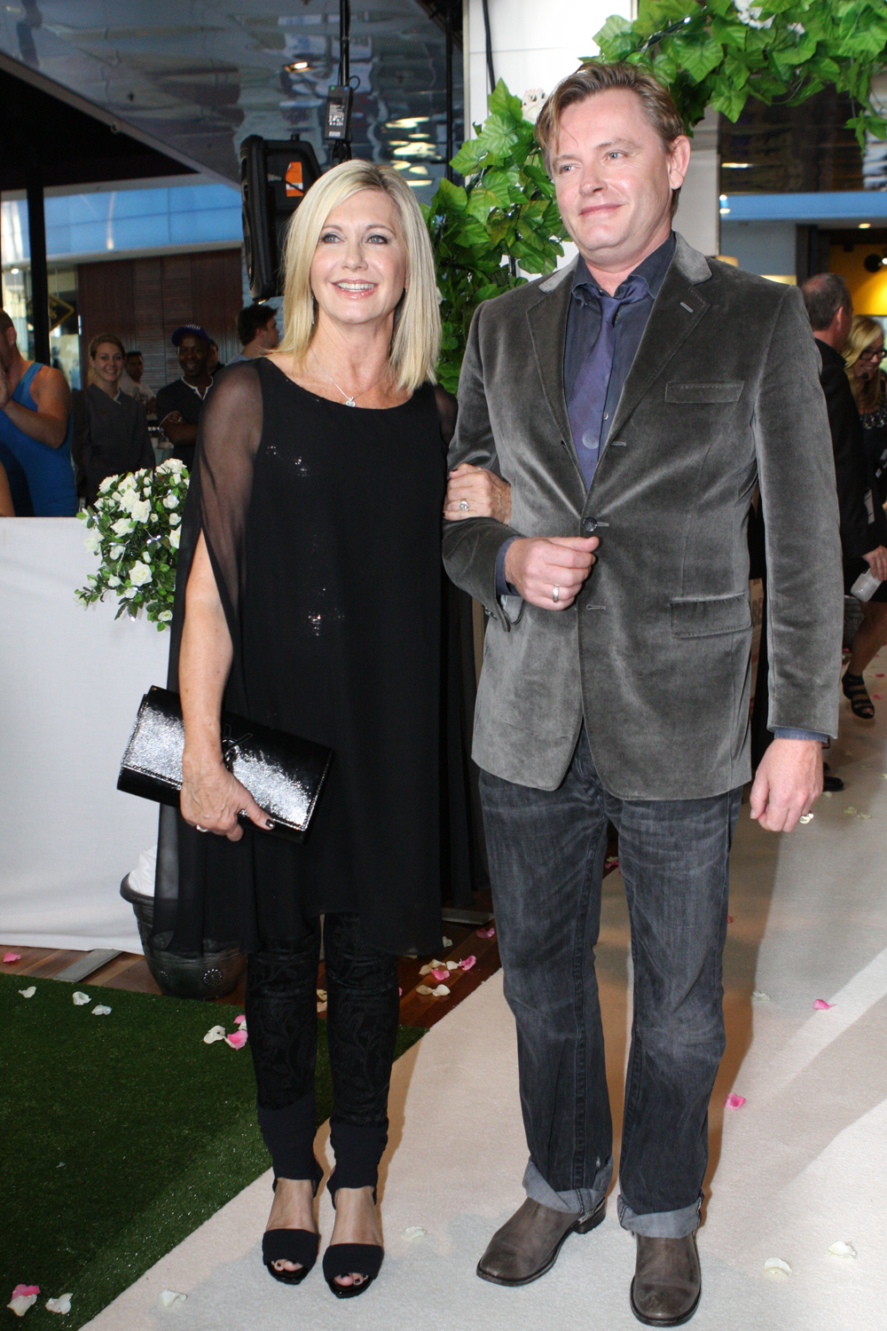 A Few Best Men Red Carpet Movie Premiere In Sydney, Australia A Few Best Men enjoyed its Sydney red carpet premiere earlier this evening at Bondi Junction's Event Cinema. In essence, it's a a comedy about a groom and his three best men who travel to the Australian outback for a wedding. The flick has numerous Sydney based media men and women tipping that this may be just the start of a reinvigoration of Olivia Newton-John's acting career, but its really too early to know for sure. Maybe O-N-J and her agent know something we don't. Twilight Eclipse hunk Xavier Samuel stars as the film's hapless bridegroom. British thespians Kris Marshall (Death At A Funeral) Kevin Bishop (Spanish Apartment), and Australian comedy star Rebel Wilson was there, as was Laura Brent (Chronicles of Narnia), Steve Le Marquand (Beneath Hill 60) and Tangle actor Tim Draxl. Even local MP Malcolm Turnbull and wife Lucy showed up in support. The flick, which was filmed in Sydney and the Blue Mountains, is hoped to be a return to form for Elliott, who has had mixed success since his 1994 smash hit The Adventures of Priscilla: Queen of the Desert. It's quite an unlikely acting platform for Newton-John, who many film industry commentators say her last decent film role was alongside John Travolta in Two of a Kind back in 1983. Elliott told the media that the Aussie singer/actress has fitted in well with the rest of the cast. "She's great. Everyone's coming together really well and she's really getting into it," he said. A Few Best Men opens in cinemas nationally on January 26, 2012. Director: Stephan Elliott Writers: Dean Craig Stars: Rebel Wilson, Olivia Newton-John and Xavier Samuel Websites A Few Best Men official website Icon Film Distribution Event Cinemas Nix Co Eva Rinaldi Photography Flickr Eva Rinaldi Photography Splash News Music News Australia